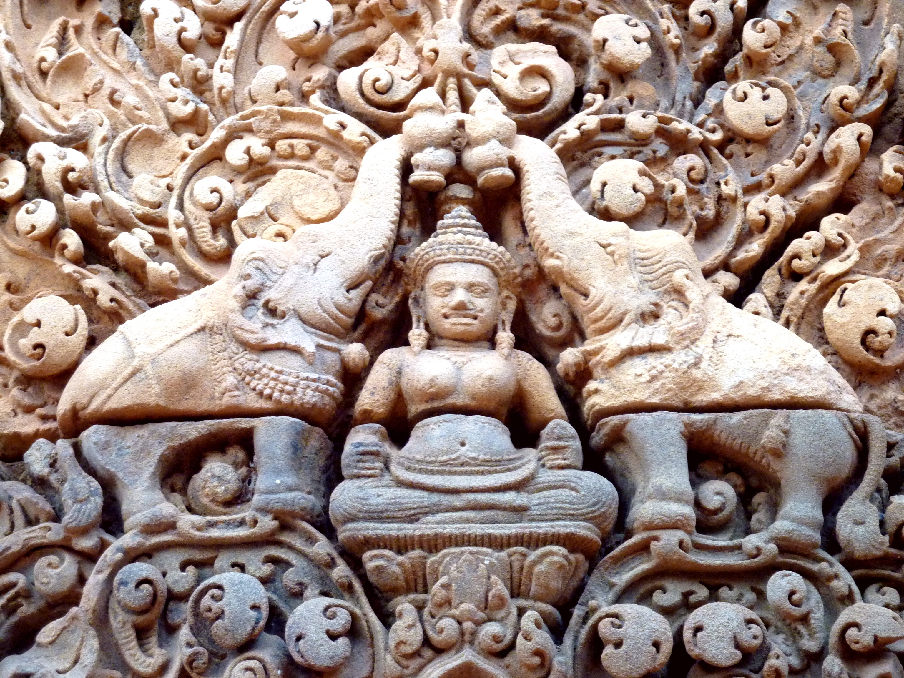 027 Devi washed by Elelphants at Banteay Srei Photograph from Banteay Srei, Angkor in Cambodia taken by Anandajoti.